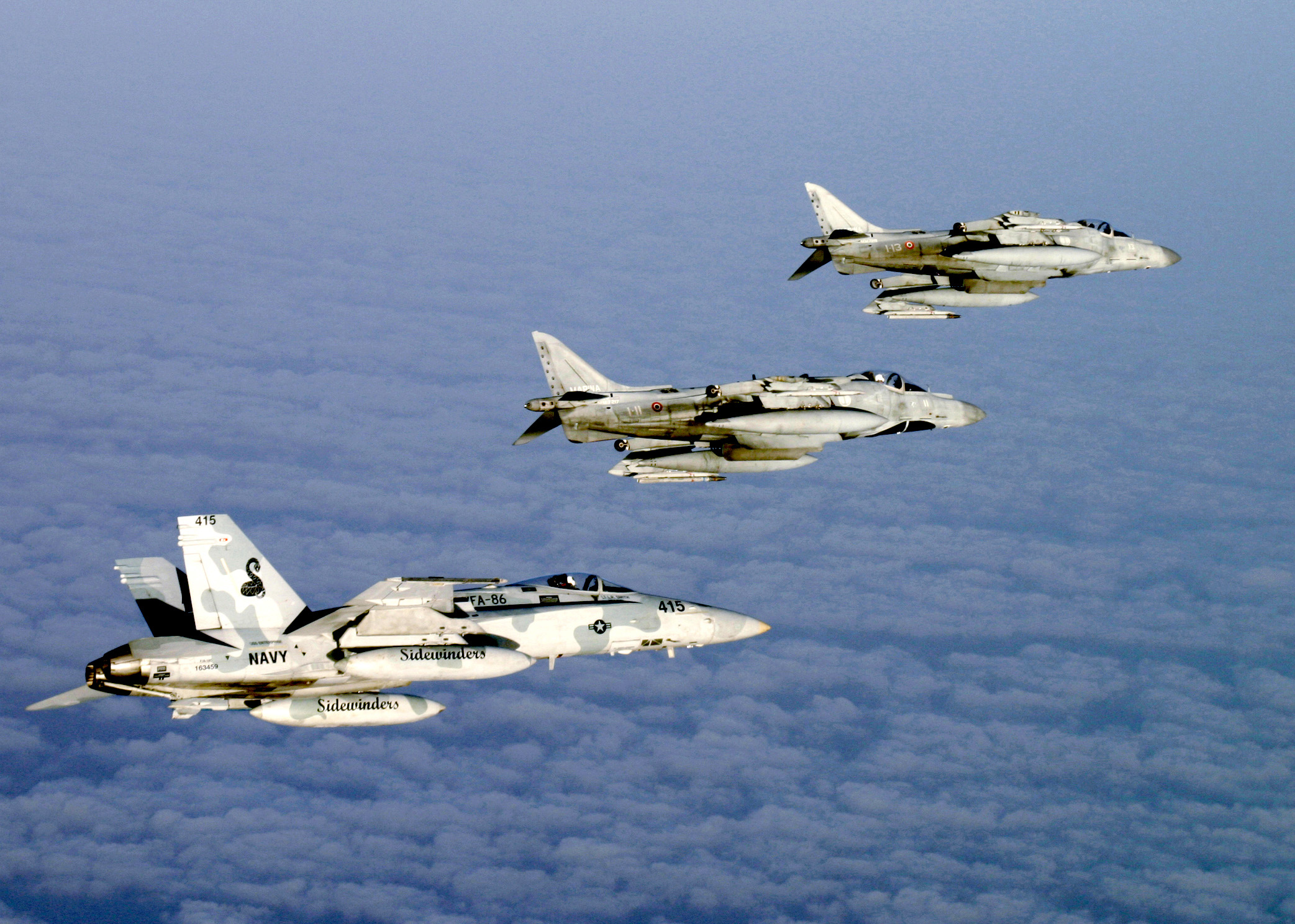 Above the clouds over the Atlantic Ocean an F/A-18C Hornet assigned to the "Sidewinders" of Strike Fighter Squadron Eight Six (VFA-86) flies in formation with two Italian AV-8B Harrier II+ assigned to the Italian Navy aircraft carrier ITS Giuseppi Garabaldi (C 551) after conducting Dissimilar Air Combat Training (DACT). The aircraft are part of Majestic Eagle, a multinational exercise being conducted off the coast of Morocco. The exercise demonstrates the combined force capabilities and quick response times of the participating naval, air, undersea and surface warfare groups. Countries involved in the U.S.-led exercise include the United Kingdom, Morocco, France, Italy, Portugal, Spain, and Turkey. Truman's participation in Majestic Eagle is part of her scheduled deployment supporting the Navy's new fleet response plan (FRP) Summer Pulse 2004, the simultaneous deployment of seven carrier strike groups (CSGs), demonstrating the ability of the Navy to provide credible combat across the globe, in five theaters with other U.S., allied, and coalition military forces.